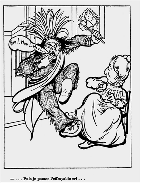 ... Puis je pousse l'effroyable cri..., stip 03 of Histoire de sauvage from the album En Roulant Ma Boule (Montréal, june 1901) — first published in the newspaper La Presse (Montréal).